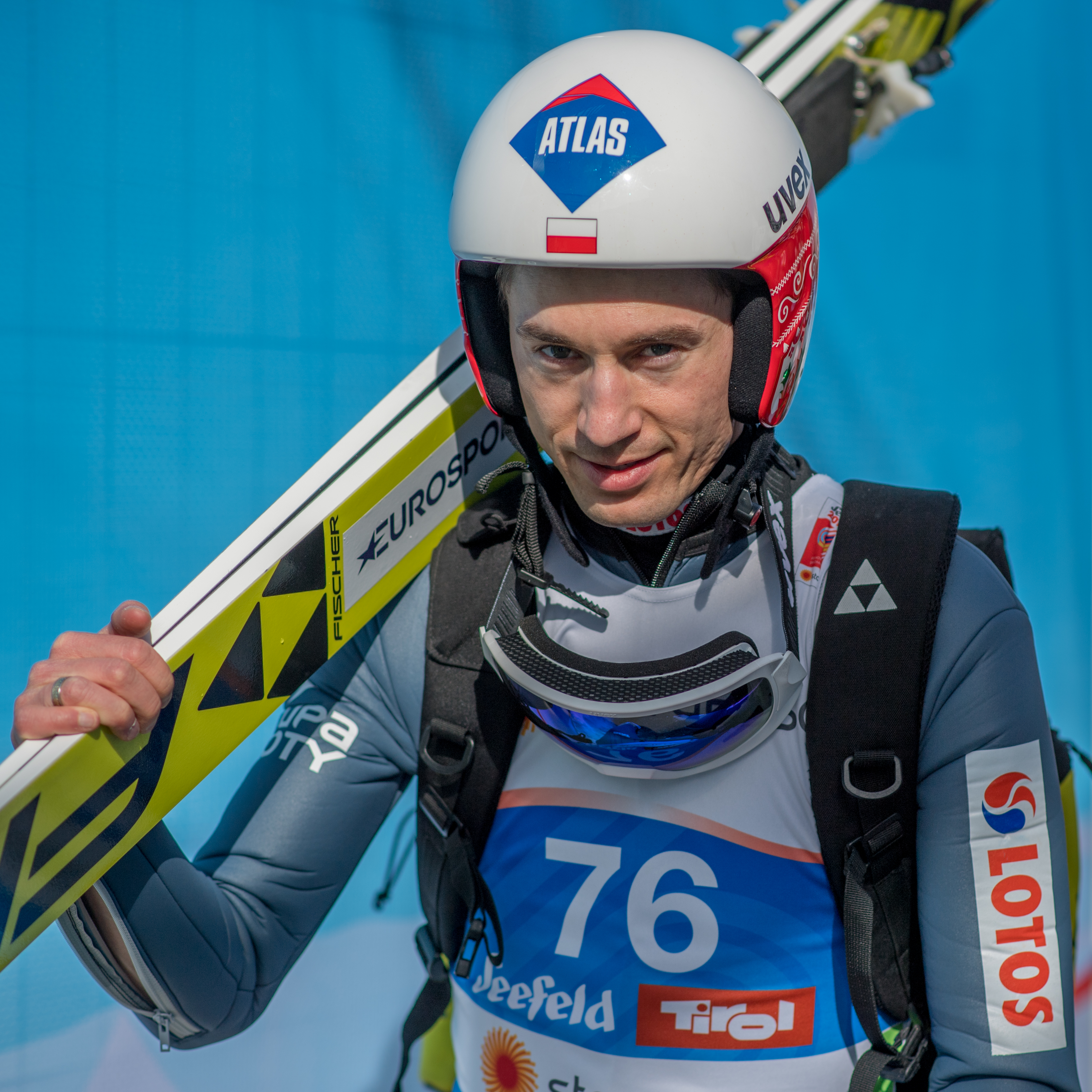 Seefeld, February 26, 2019: FIS Nordic World Ski Championships, Ski Jumping Training Men.